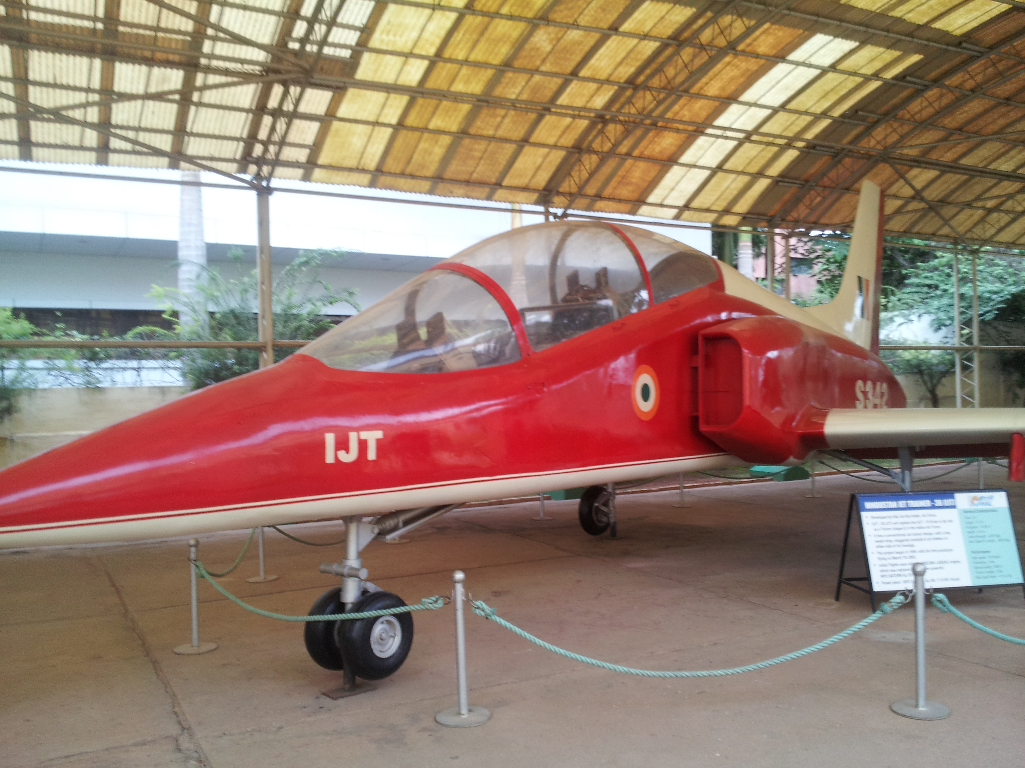 HAL HJT-36 Sitara (IJT), proposed new internediate jet trainer for the Indian Air Force